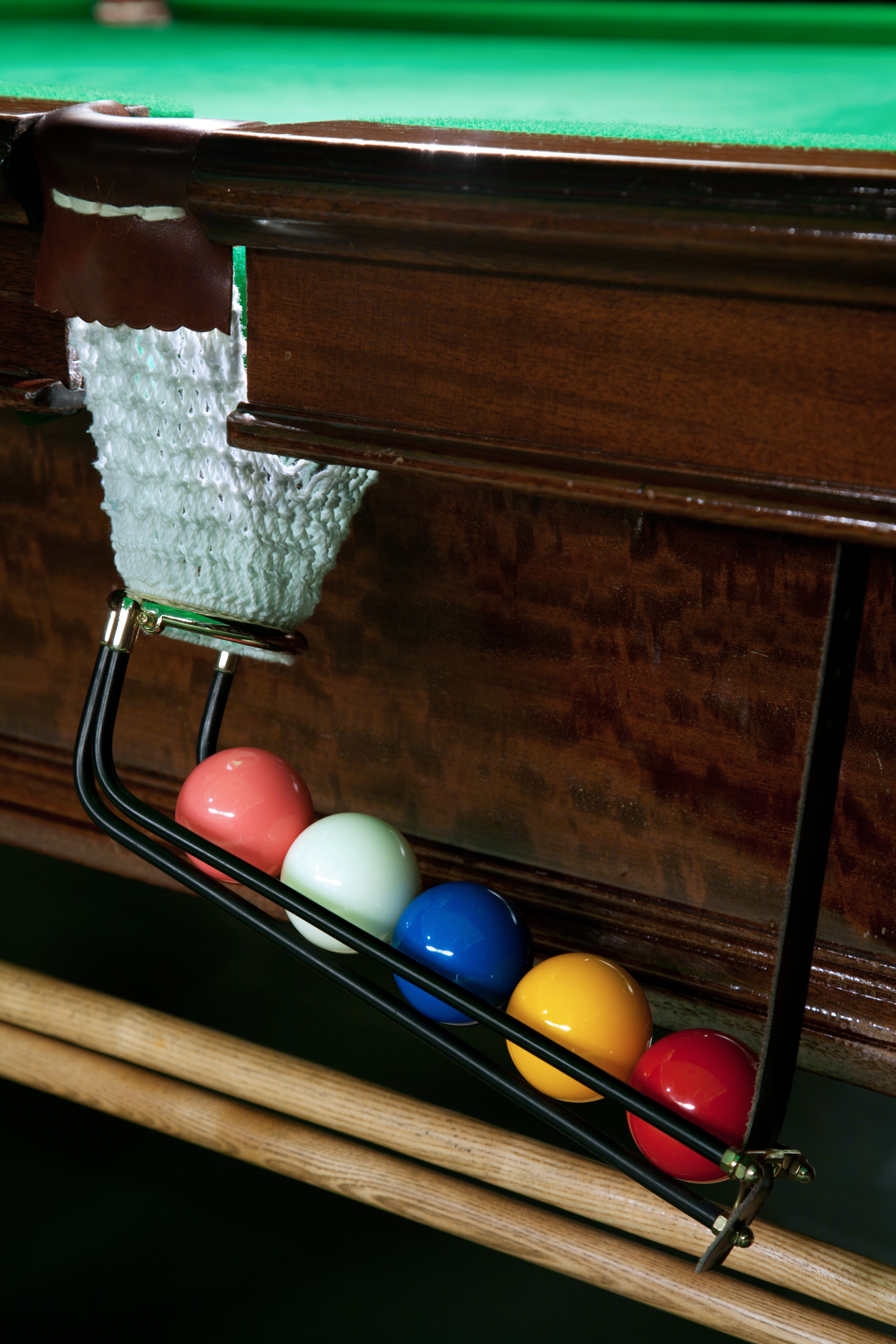 Snooker balls. Billiards Room. Royal Automobile Club. London, UK